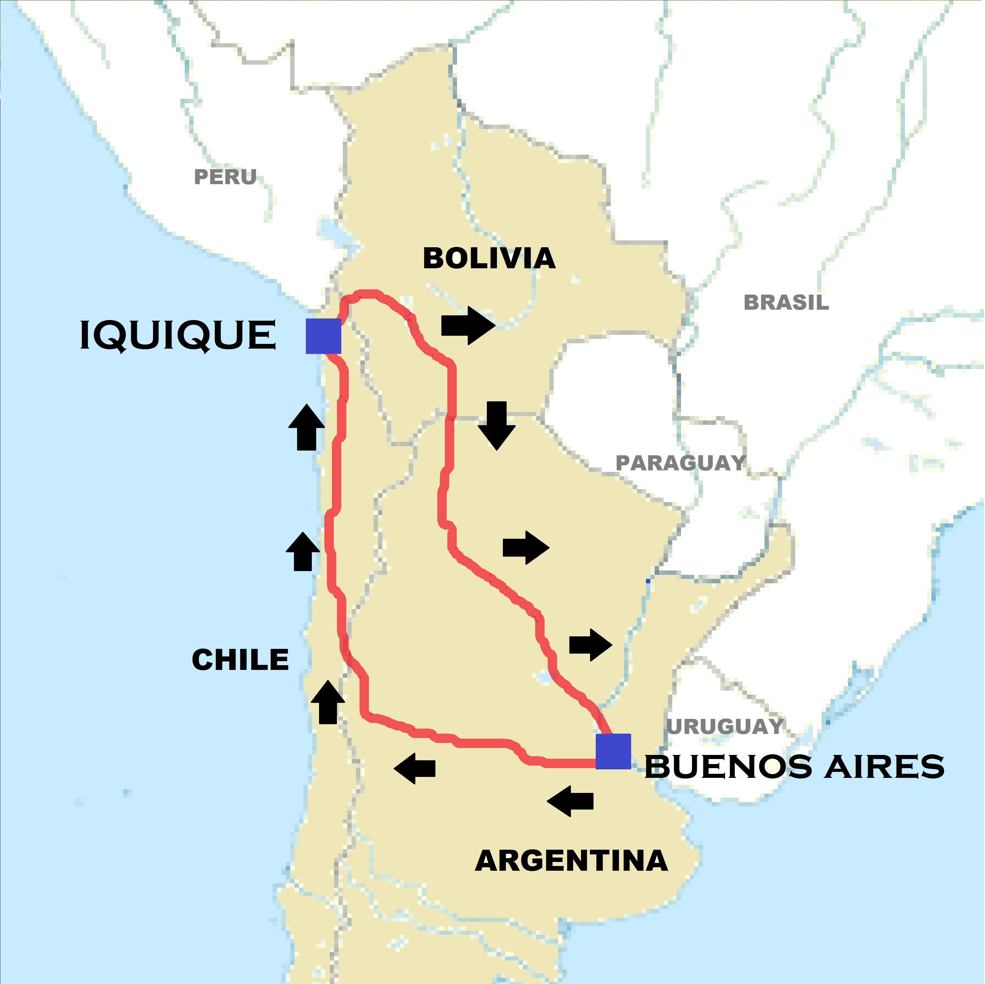 Mapa del rally Dakar 2015